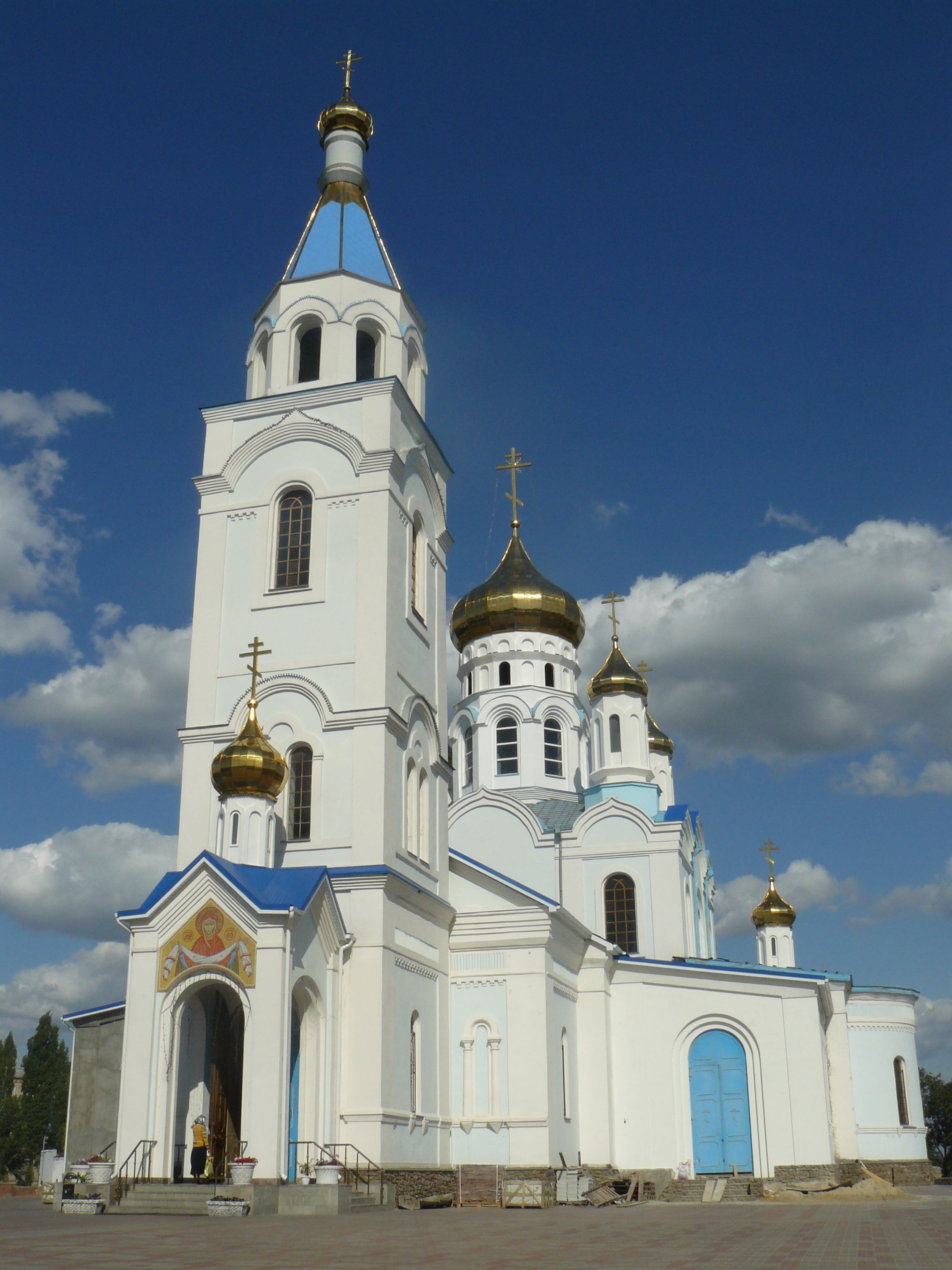 Cathedral of Holy Virgin Protection_facade